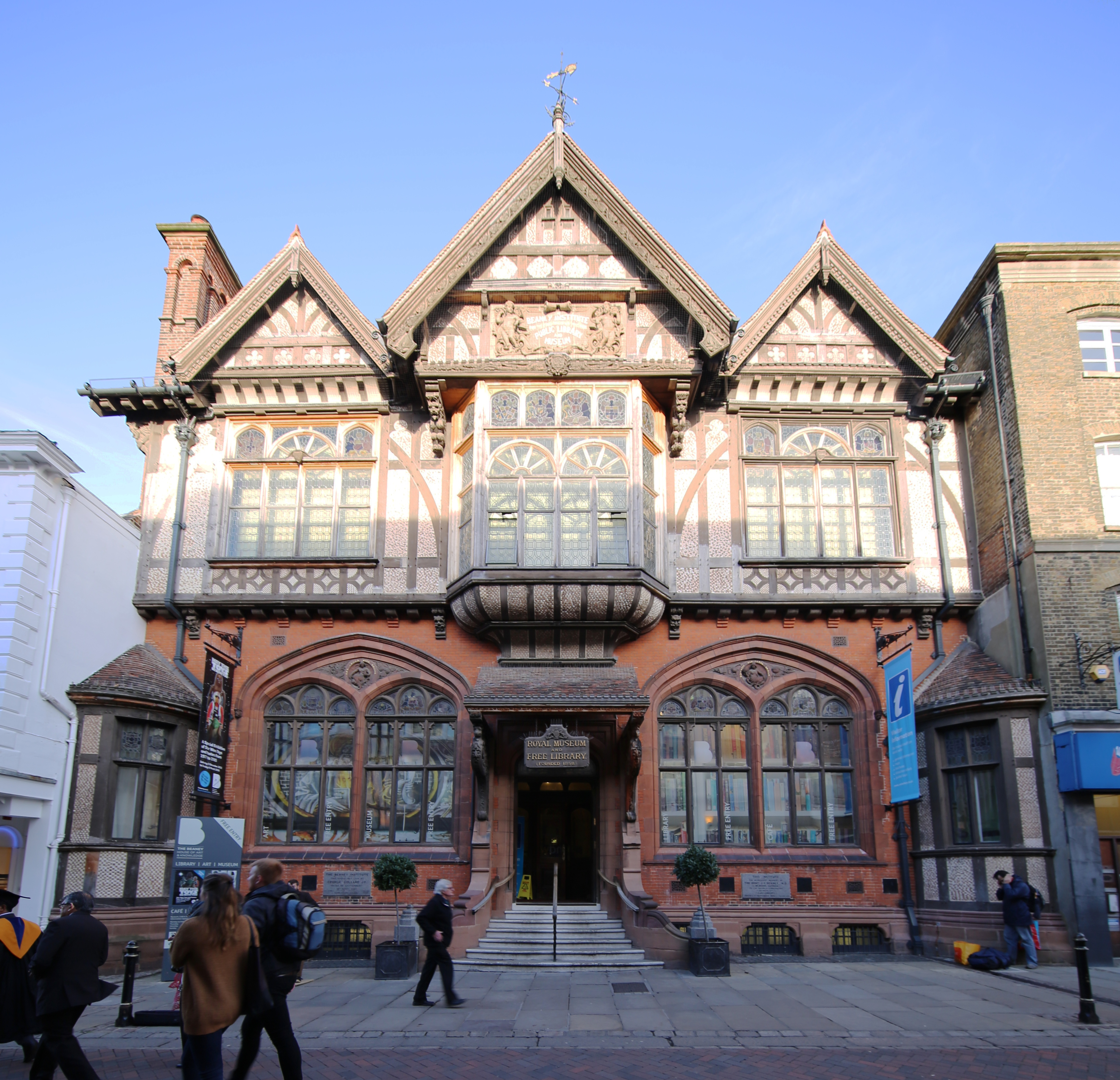 Photo of Beaney House of Art and Knowledge from the front